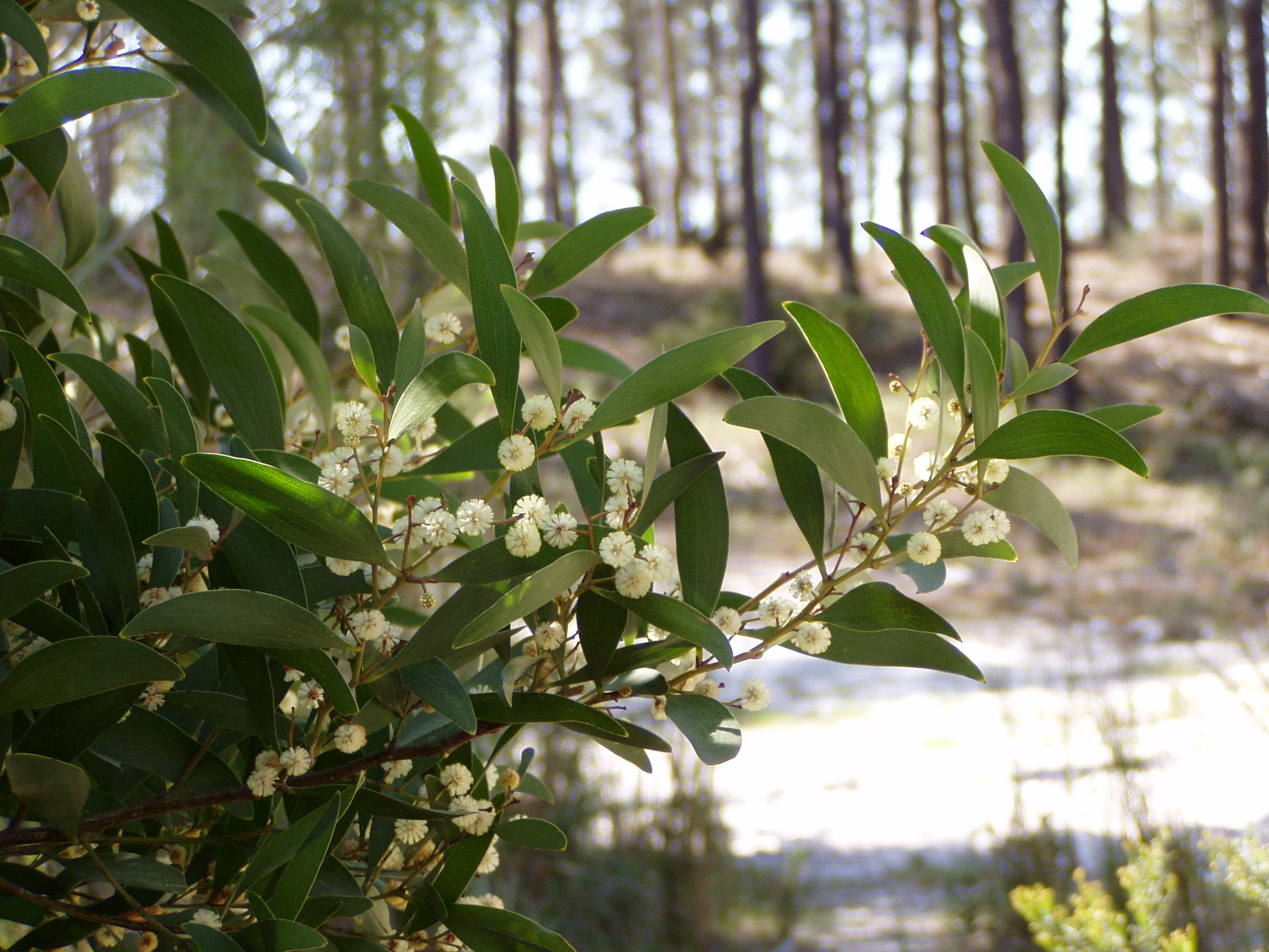 Blackwood